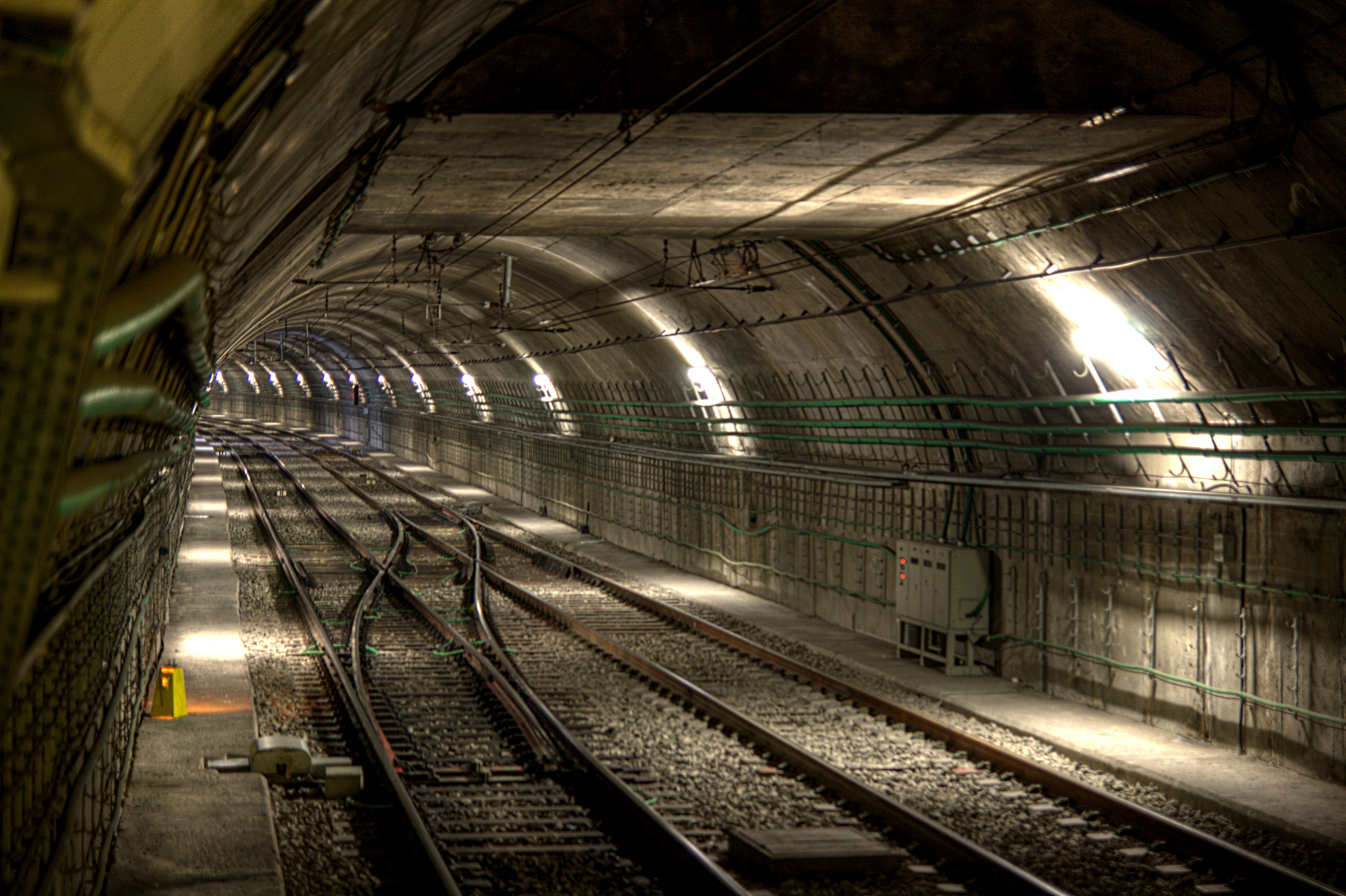 A tunnel of Buenos Aires Metro.